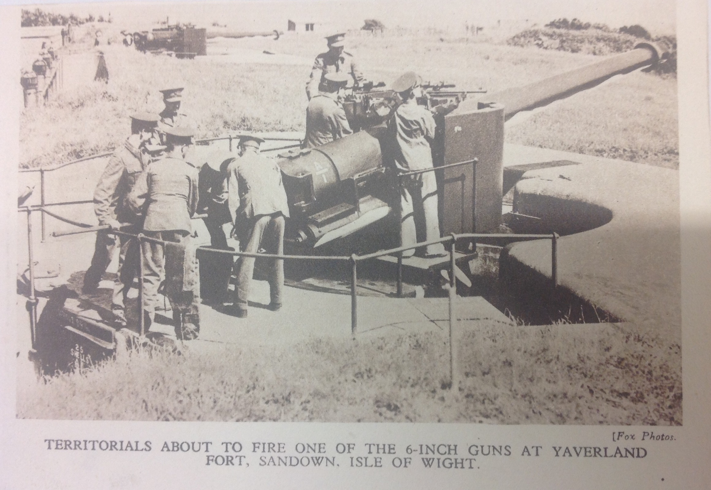 Territorial Artillery men firing a 6-inch Breech Loading gun, at Yaverland Battery, Isle of Wight, c1935